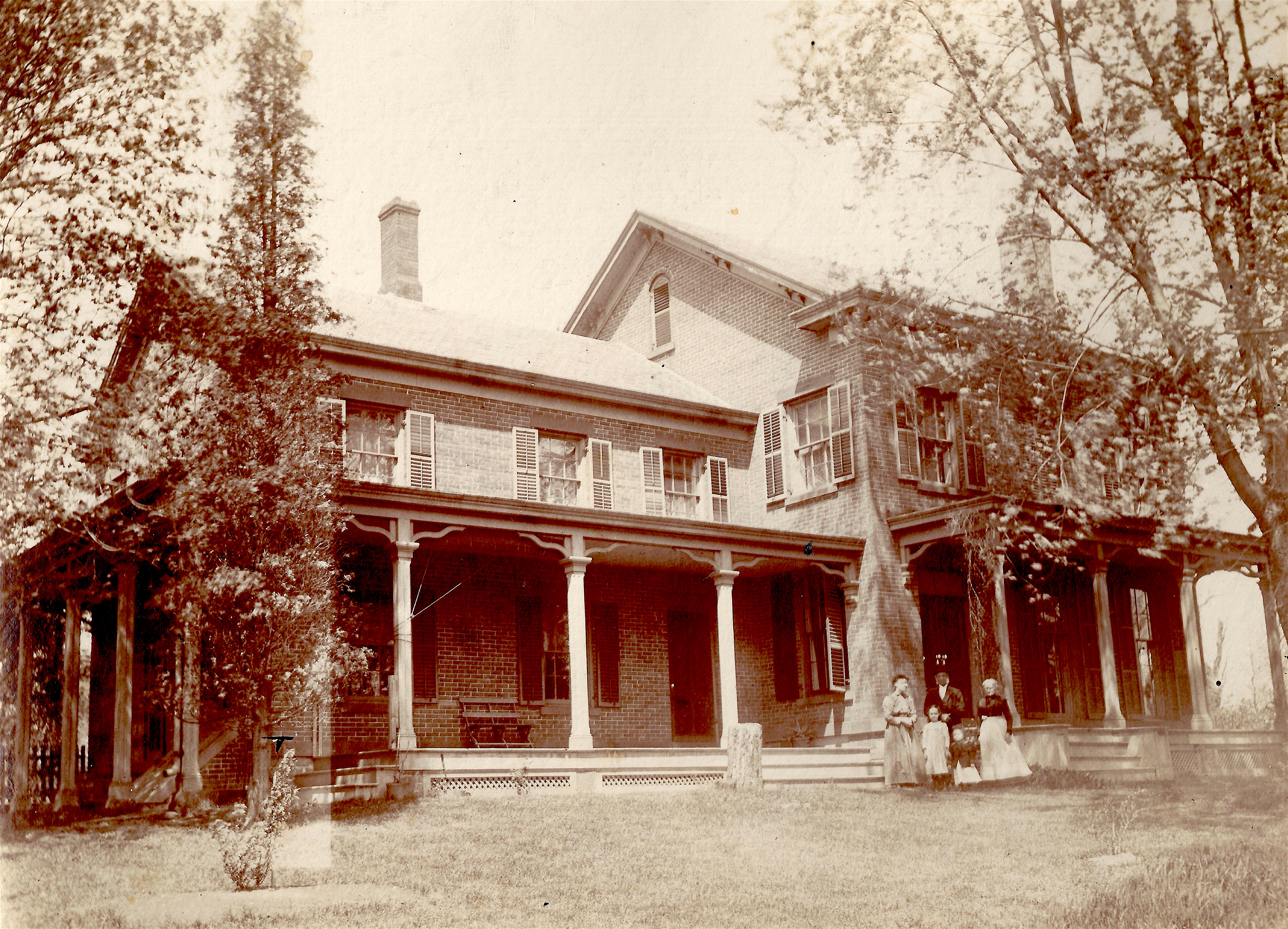 Historic photo of the South Church Manse in Bergenfield, NJ